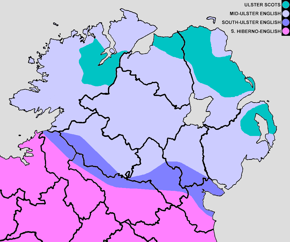 A map showing the English and Scots dialects spoken in Ulster. Turquoise: Ulster Scots Light blue: Mid-Ulster English Purple: South-Ulster English Pink: Southern Hiberno-English